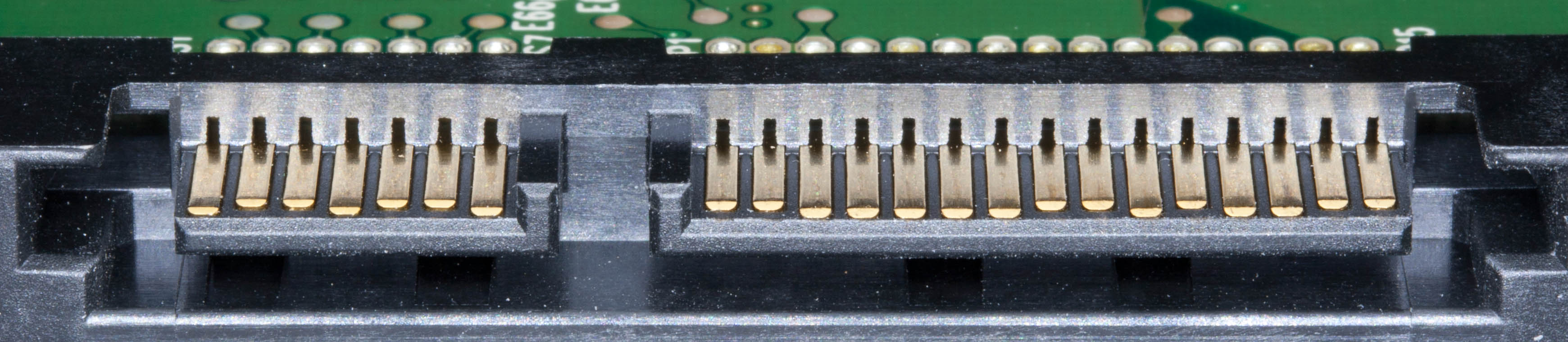 SATA ports on a hard drive